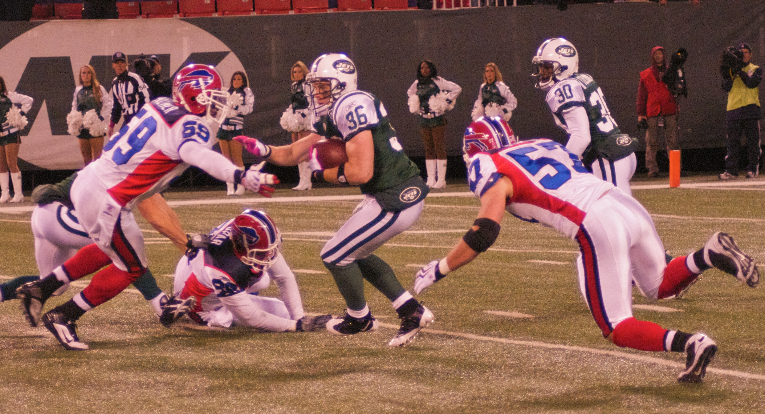 Jim Leonhard (36) tries to avoid tackles, Drew Coleman (30) watches.